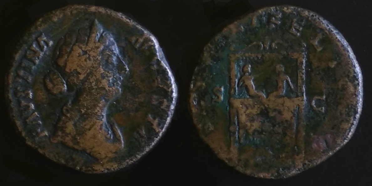 Sestertius showing on the obverse Faustina the Younger and on the reverse two infants seated on a throne. The coin was struck c 161 to celebrate the birth of Faustina's twin sons Commodus and Antoninus that year. The reverse legend reads SAECVLI FELICIT (Happiness of the age). Commodus succeeded his father Emperor Marcus Aurelius in 177.